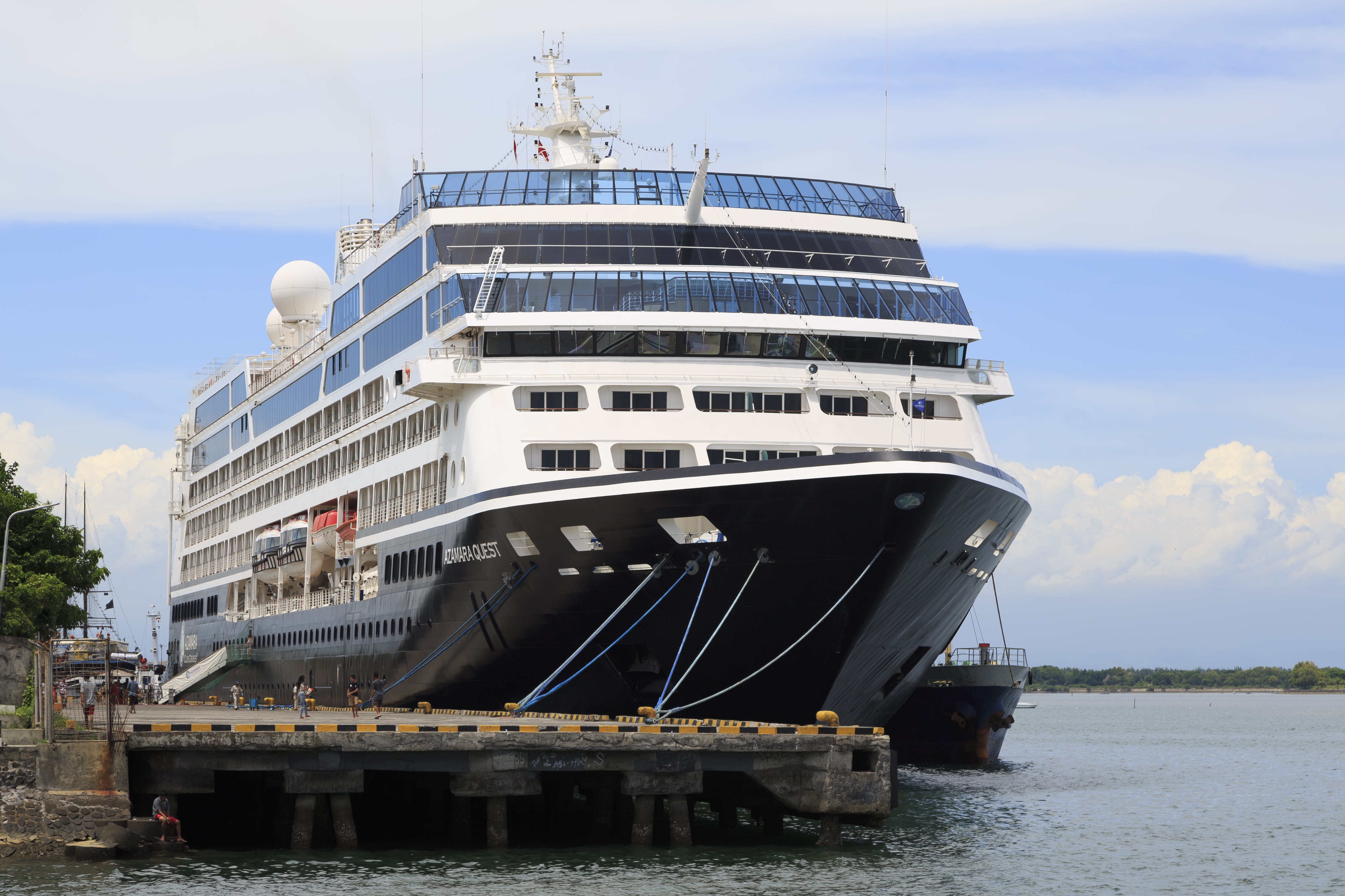 Benoa, Bali, Indonesia: Cruise ship Azamara Quest at the harbour of Benoa